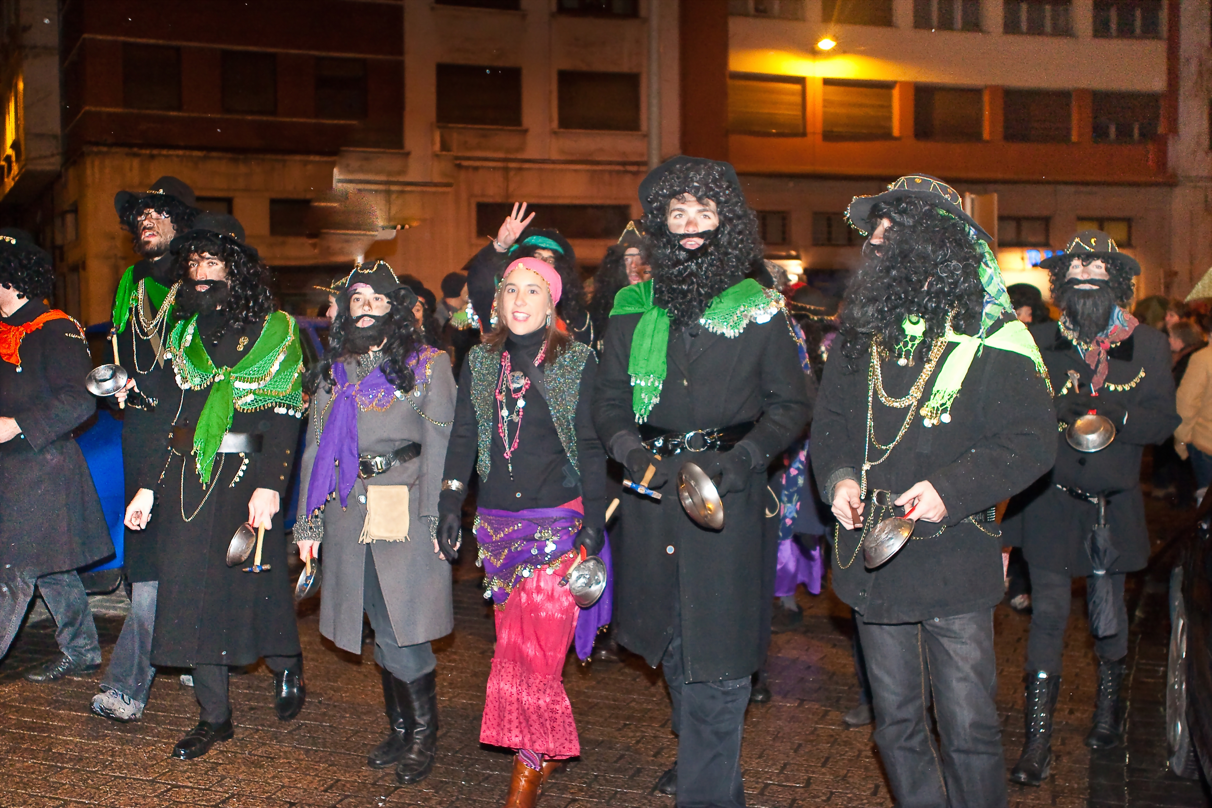 "Kaldereroak" carnival event in Eibar, Basque Country.